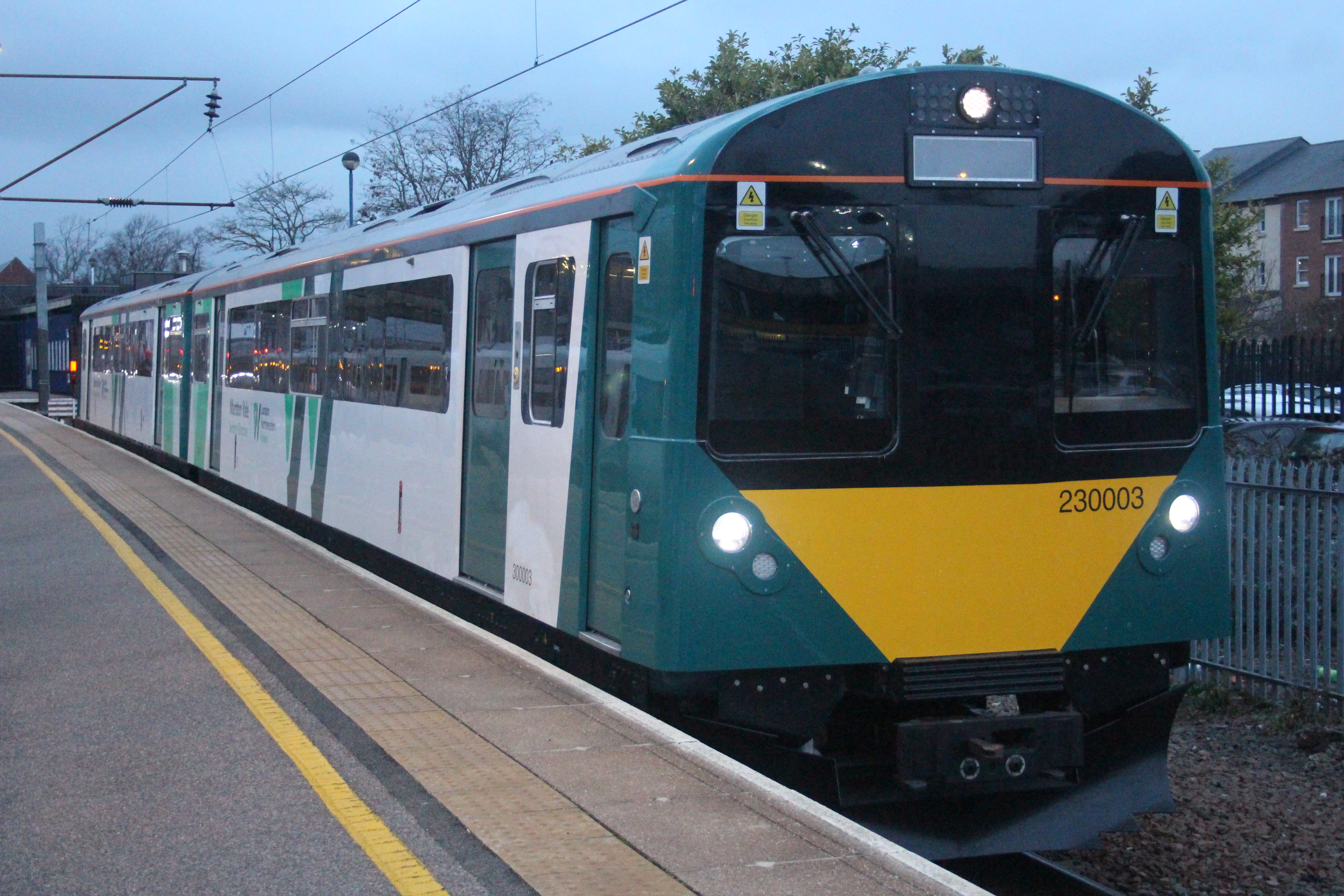 A Class 230 DEMU at Bedford Midland station.